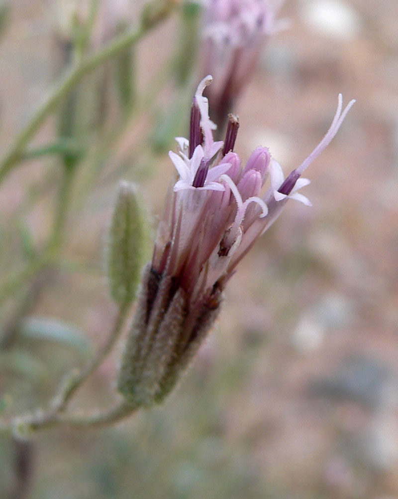 Palafoxia arida var. arida in lower Gypsum Wash near where Northshore Drive crosses it, Lake Mead National Recreation Area, southern Nevada